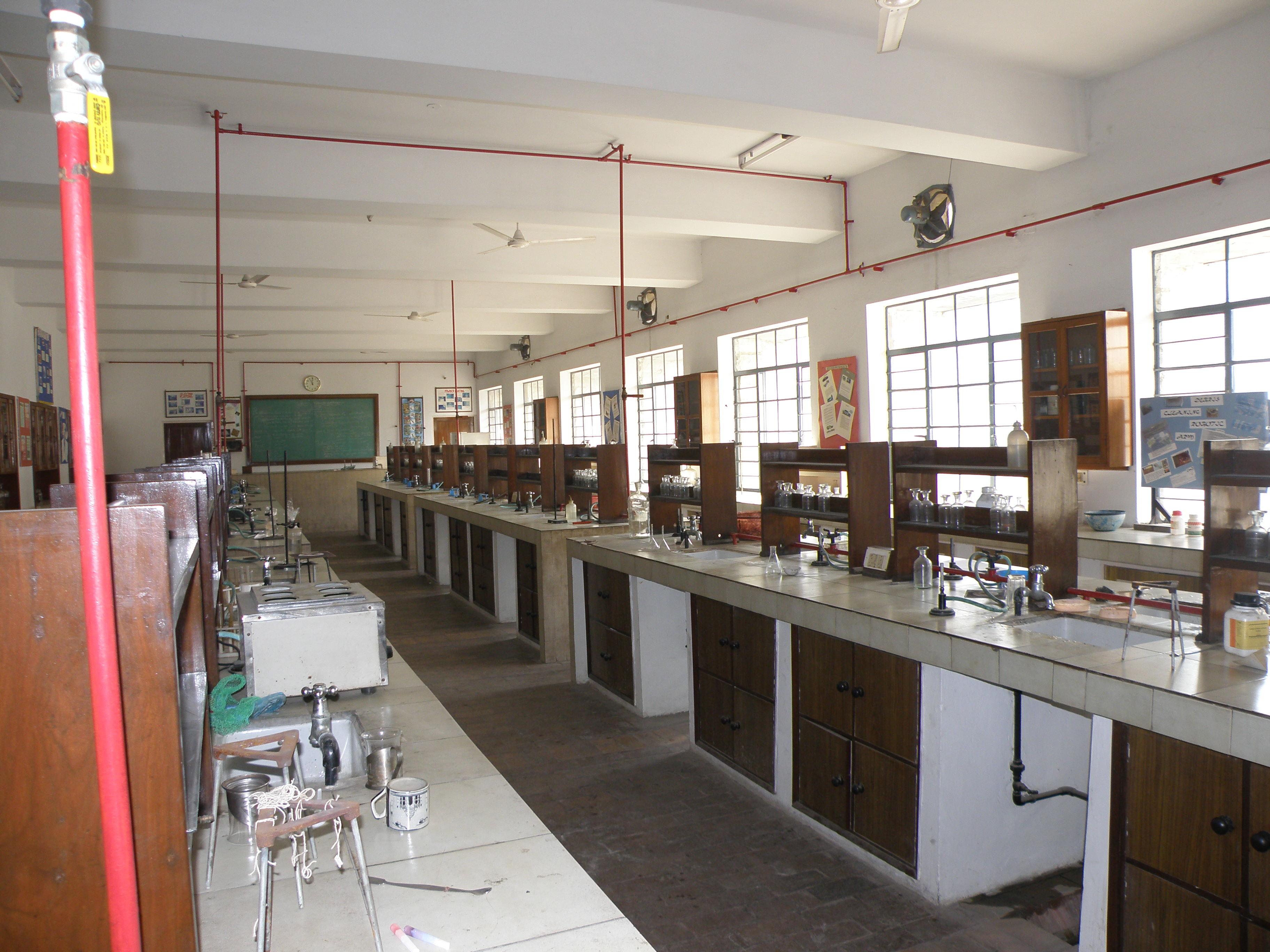 Senior chemistry lab at Mother's International School, Delhi